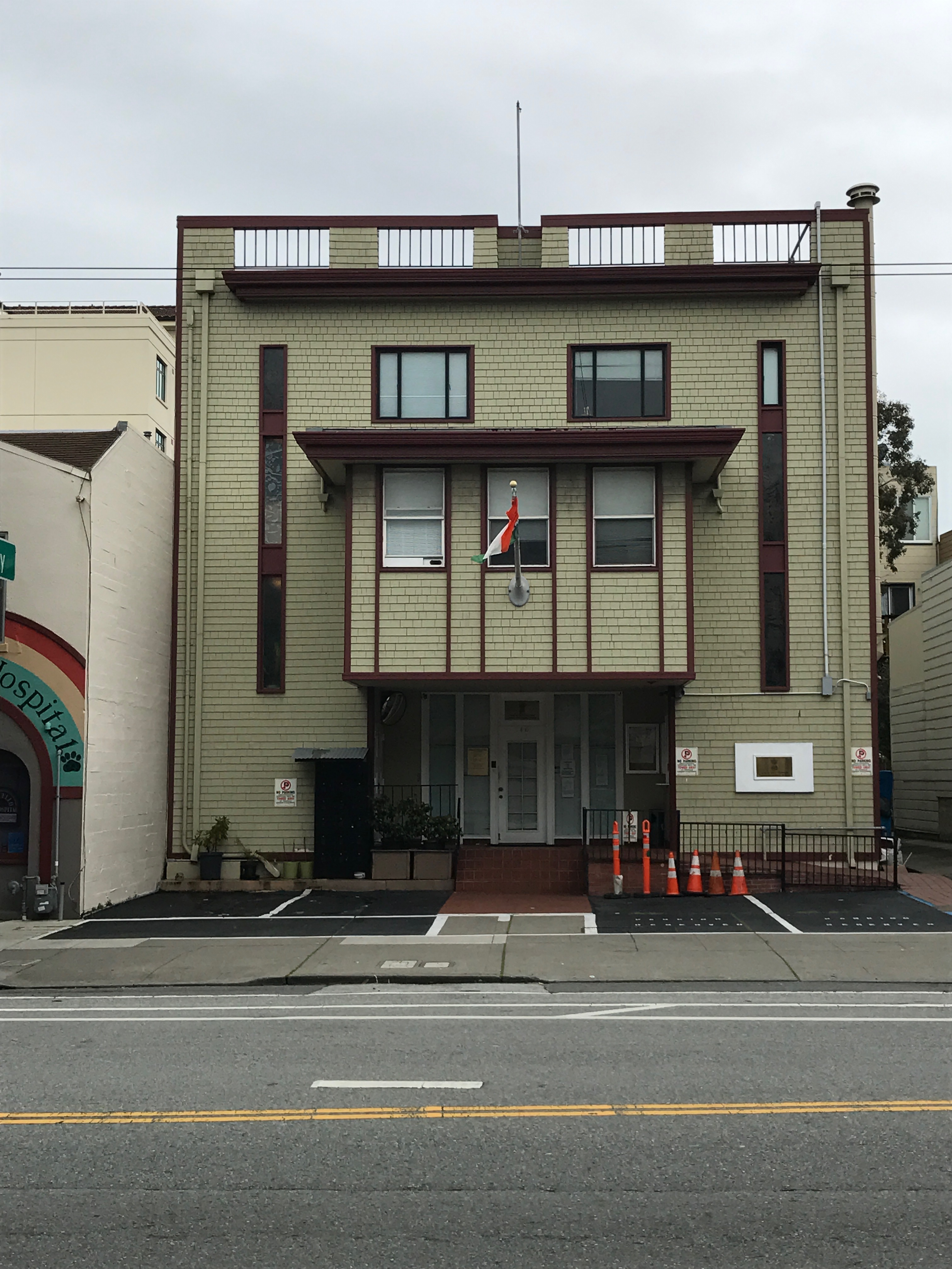 Consulate General of India in San Francisco, California